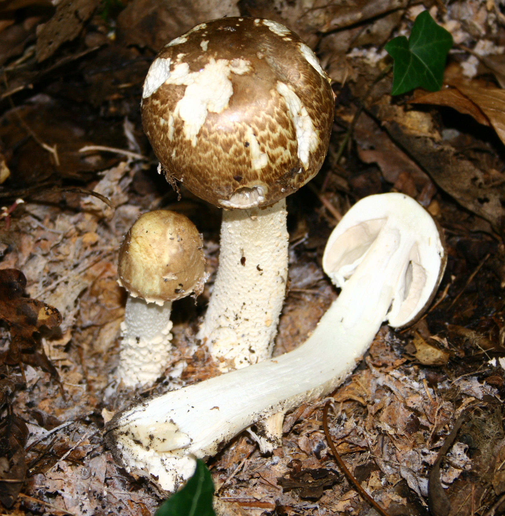 Young Agaricus augustus on a woodland roadside near Saint Chéron, France.